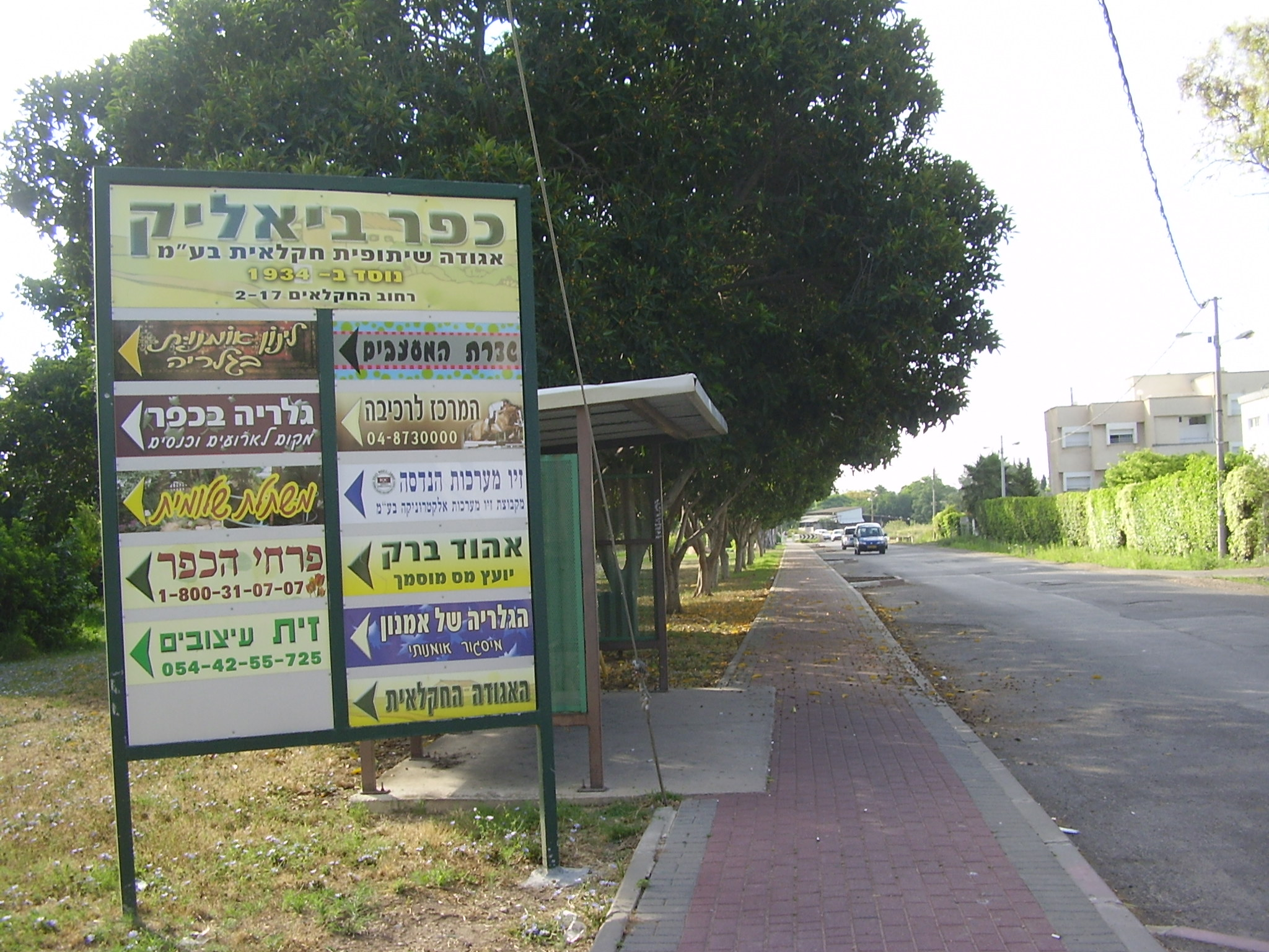 Entrance to Kfar Bialik